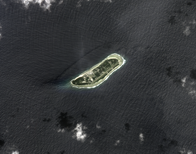 Composite "true color" multispectral satellite image of Kili Island, Marshall Islands. NASA EO-1 ALI bands used were 5 (red), 4 (green) and 2 (blue), and the image was pan-sharpened to 10m resolution. Imagery courtesy of NASA/USGS.